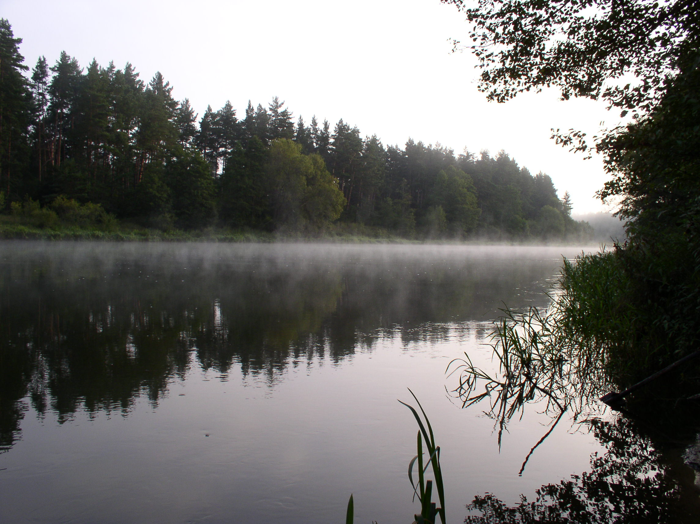 Viliya River, Belarus.